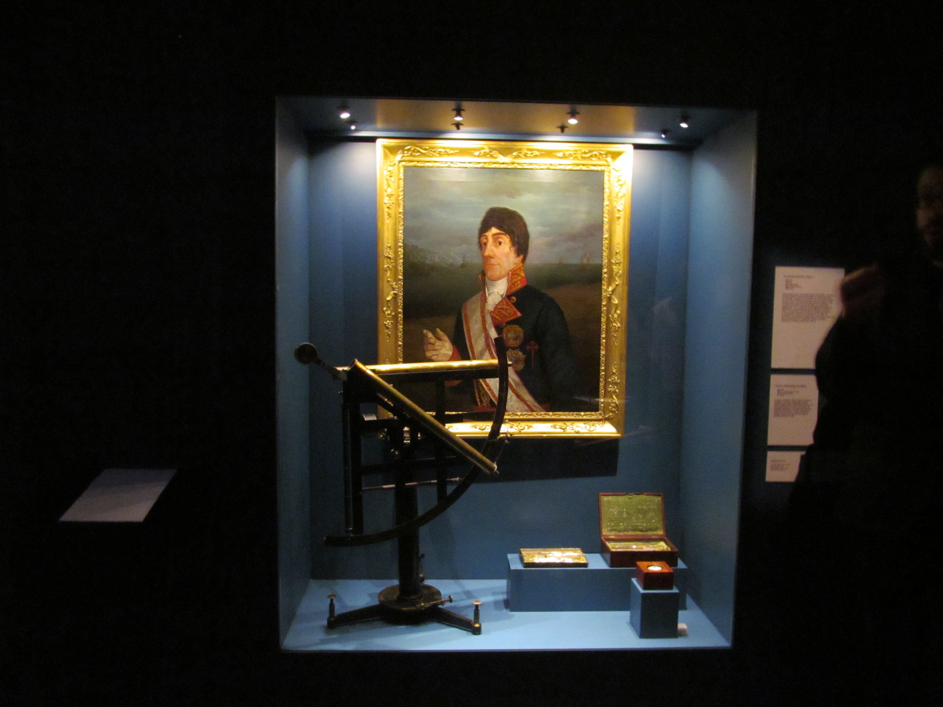 The last trip of the Mercedes. José de Bustamante y Guerra, was in command of a fleet of four frigates, "Our Lady of the Mercedes", "La Clara", "La Medea" and "La Fama", when he was intercepted by an English squad on October 5 of 1804, off the coast of the Algarve (Portugal), in the middle of an unexpected fight, the frigate "Our Lady of the Mercedes" explodes violently sinking instantly.